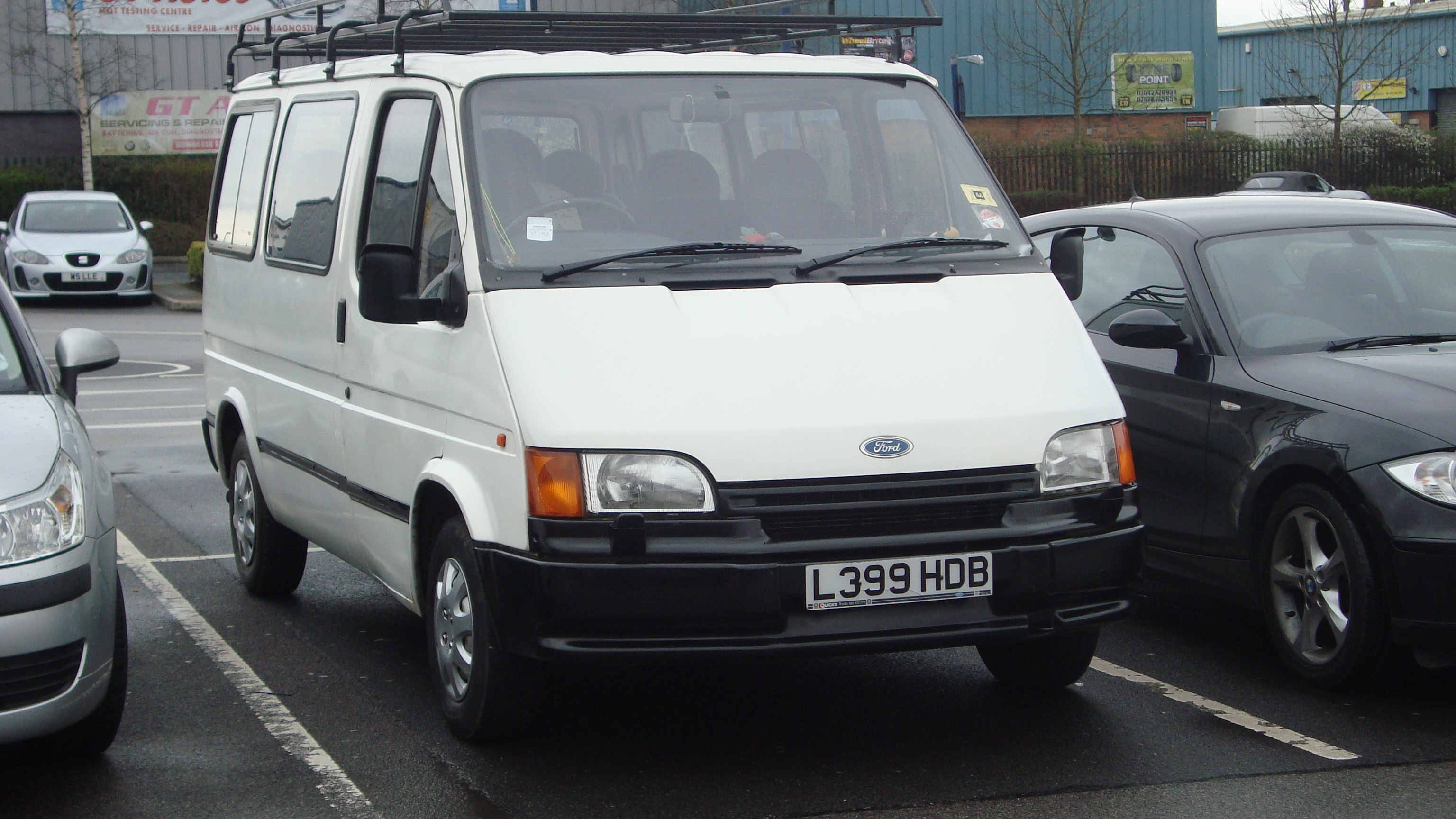 Was very happy to see this, don't see a lot of Transits older than the smiley faces these days, this was very clean for 20, I've seen Transits half the age of this one in much worse condition